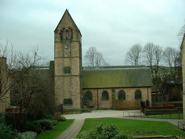 St Paul's Church Eastthorpe. The church was consecrated on 1st November 1881,a Grade II listed building situated in the centre of the town. More details at